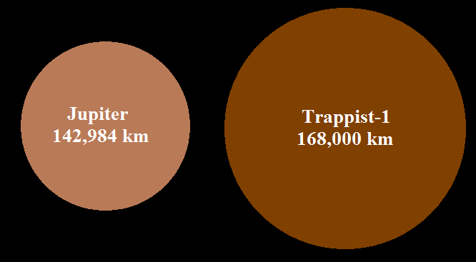 Jupiter and Trappist-1